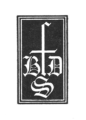 Logo of the BfdS from about 1927 until about 1981. BfdS = "Bund für deutsche Schrift und Sprache" ≈ "Association for German script and language". The Bund described itself at the time of the Weimar Republic as a non-political organization. Although with a national-conservative ethos, club and magazine were dissolved in 1941 by the Nazi regime, as the Nazis because of their modernist aspirations elevated Antiqua to the standard font.